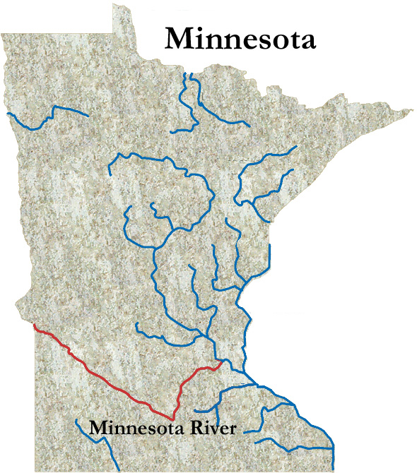 Minnesota map that denotes Minnesota River with a red line.